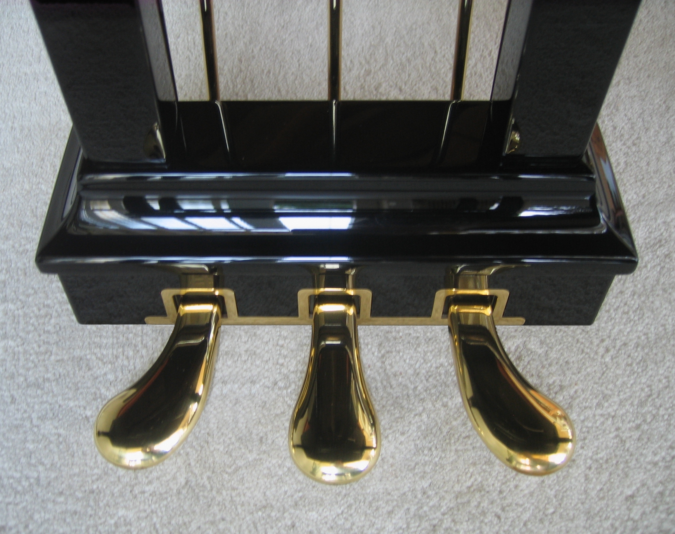 Piano pedals of a Steinway & Sons grand piano from the Steinway & Sons piano factory in Hamburg, Germany. Piano pedals from left to right: Soft pedal, Sostenuto pedal and Sustain pedal